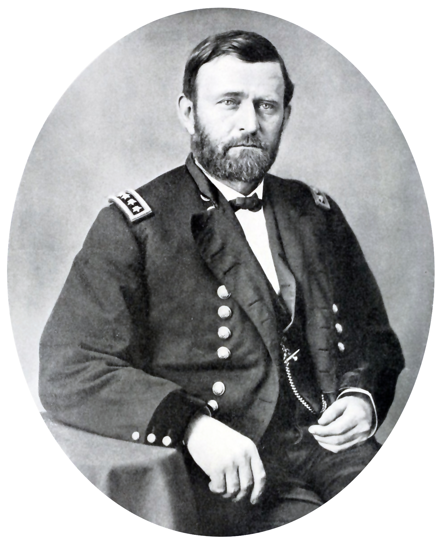 General-in-Chief of the Union Army, Ulysses S. Grant in 1865.